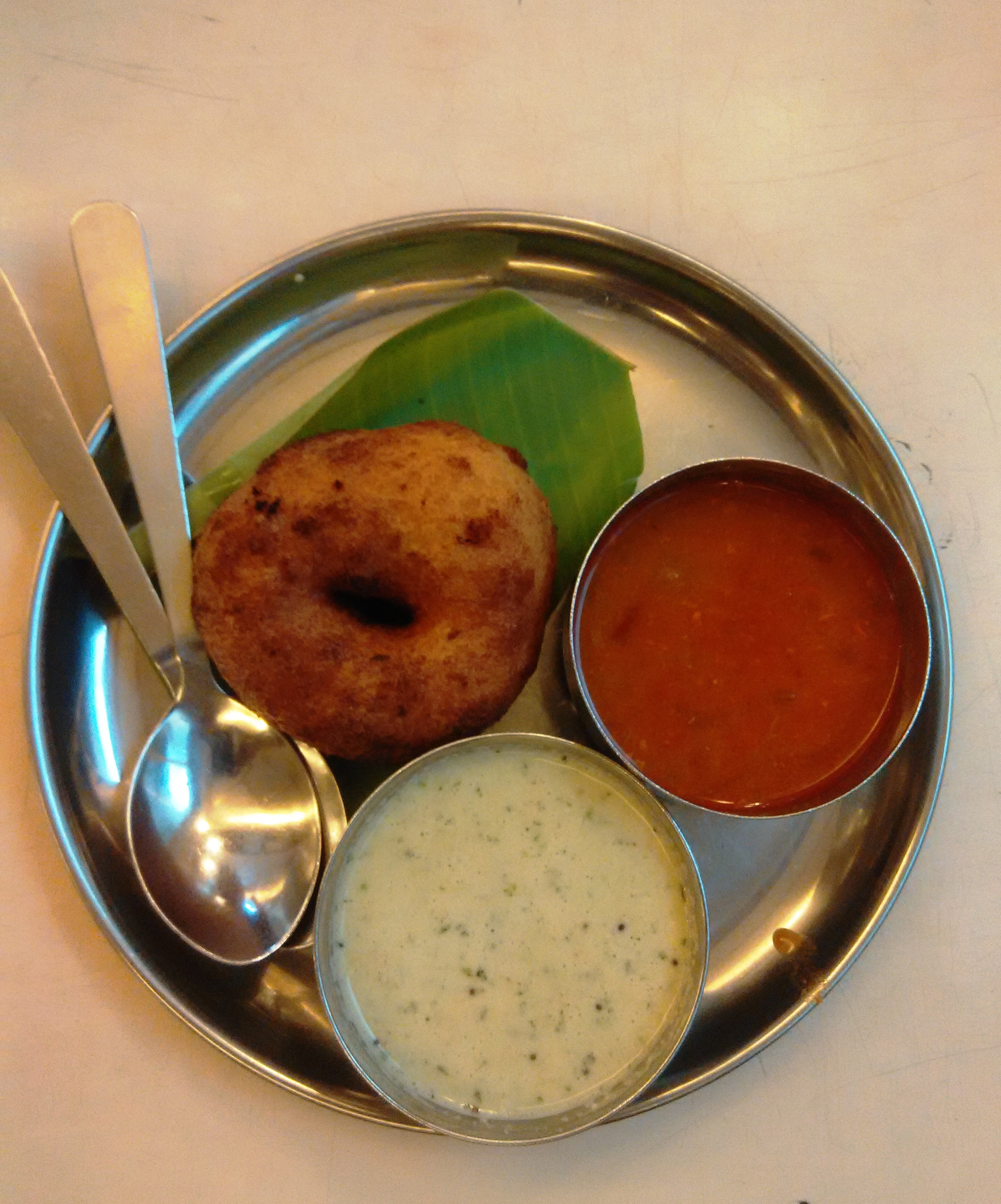 Vada sambar is south indian dish people love to eat it in morning as berakfast